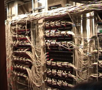 a (rare) clean network infrastructure. by François Becker